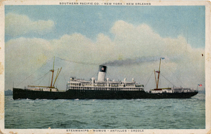 Southern Pacific Co., New York-New Orleans, Steamships, Momus, Antilles, Creole